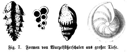 no caption